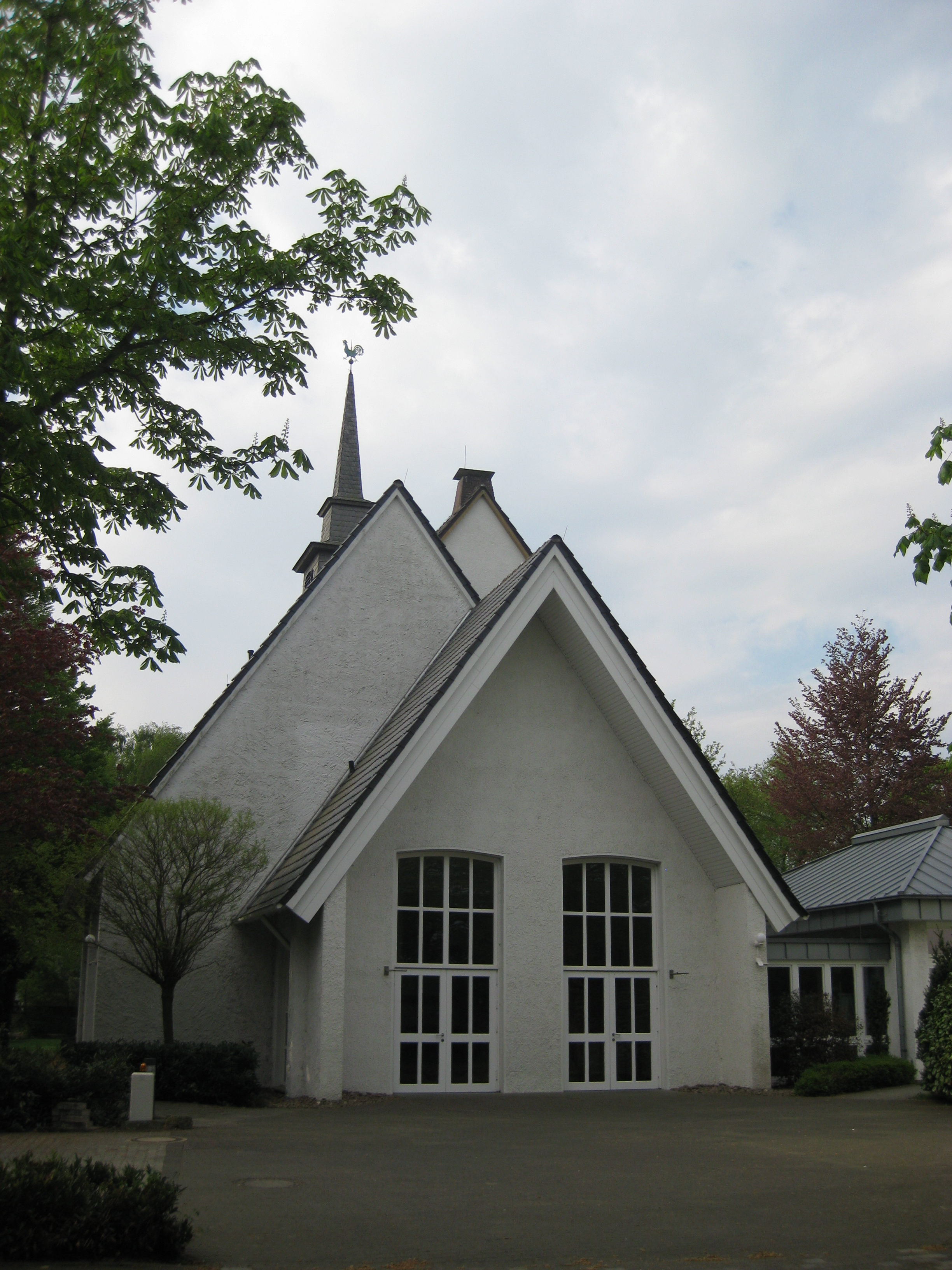 lutheran parish church Johanneskirche in Gütersloh